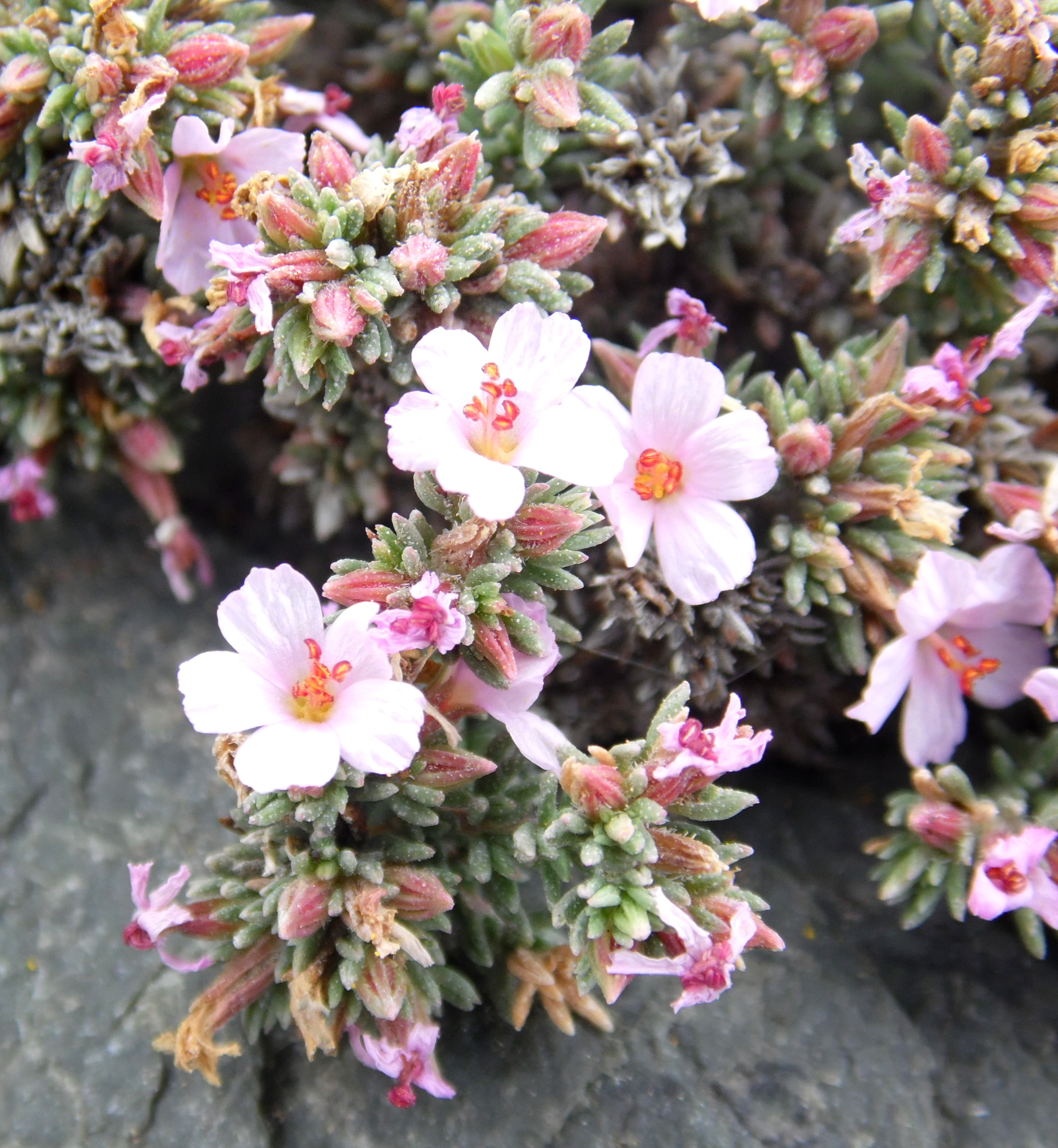 Frankenia hirsuta in Pozo de Izquierdo on Gran Canaria